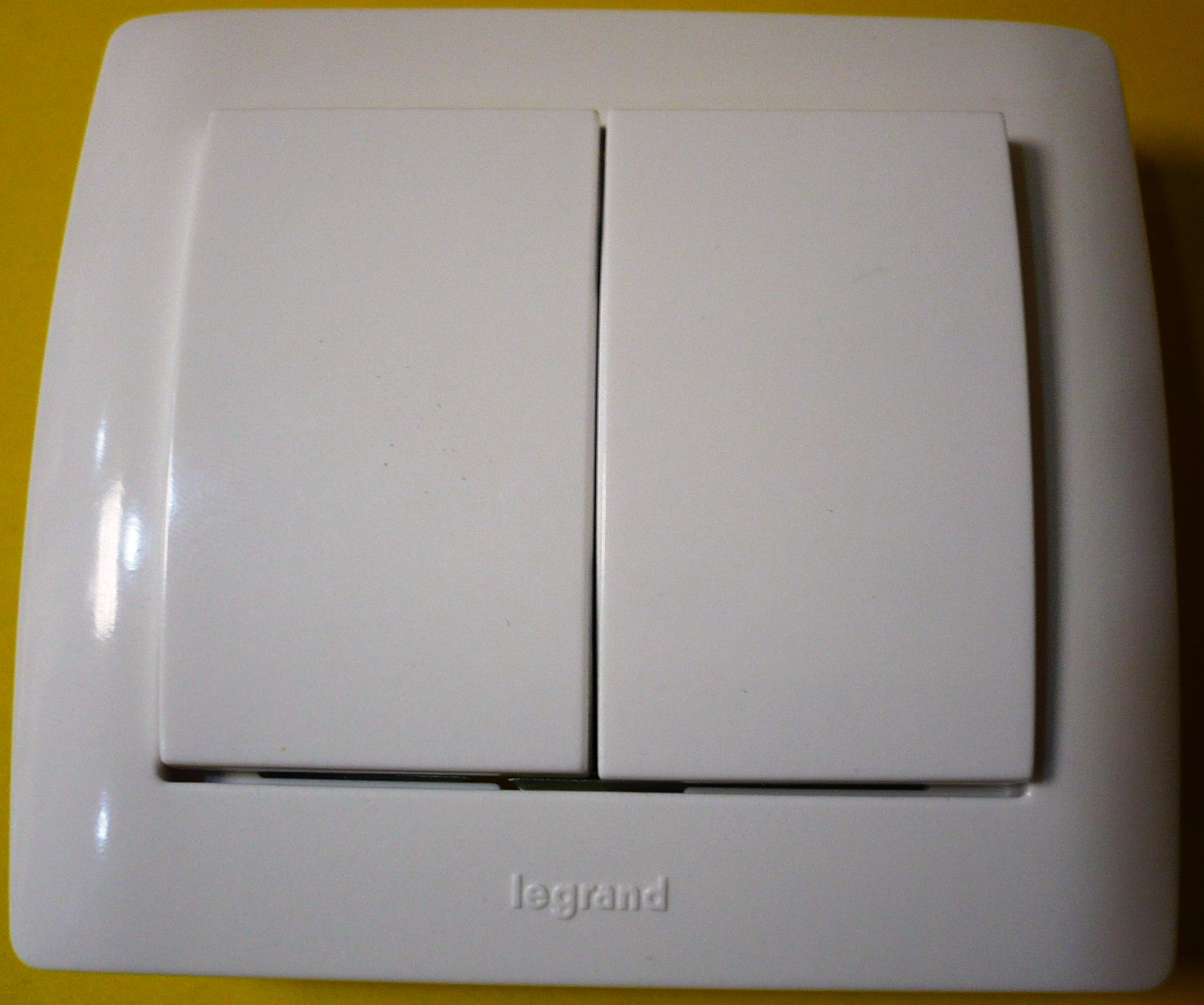 Light switch LEGRAND GALEA white